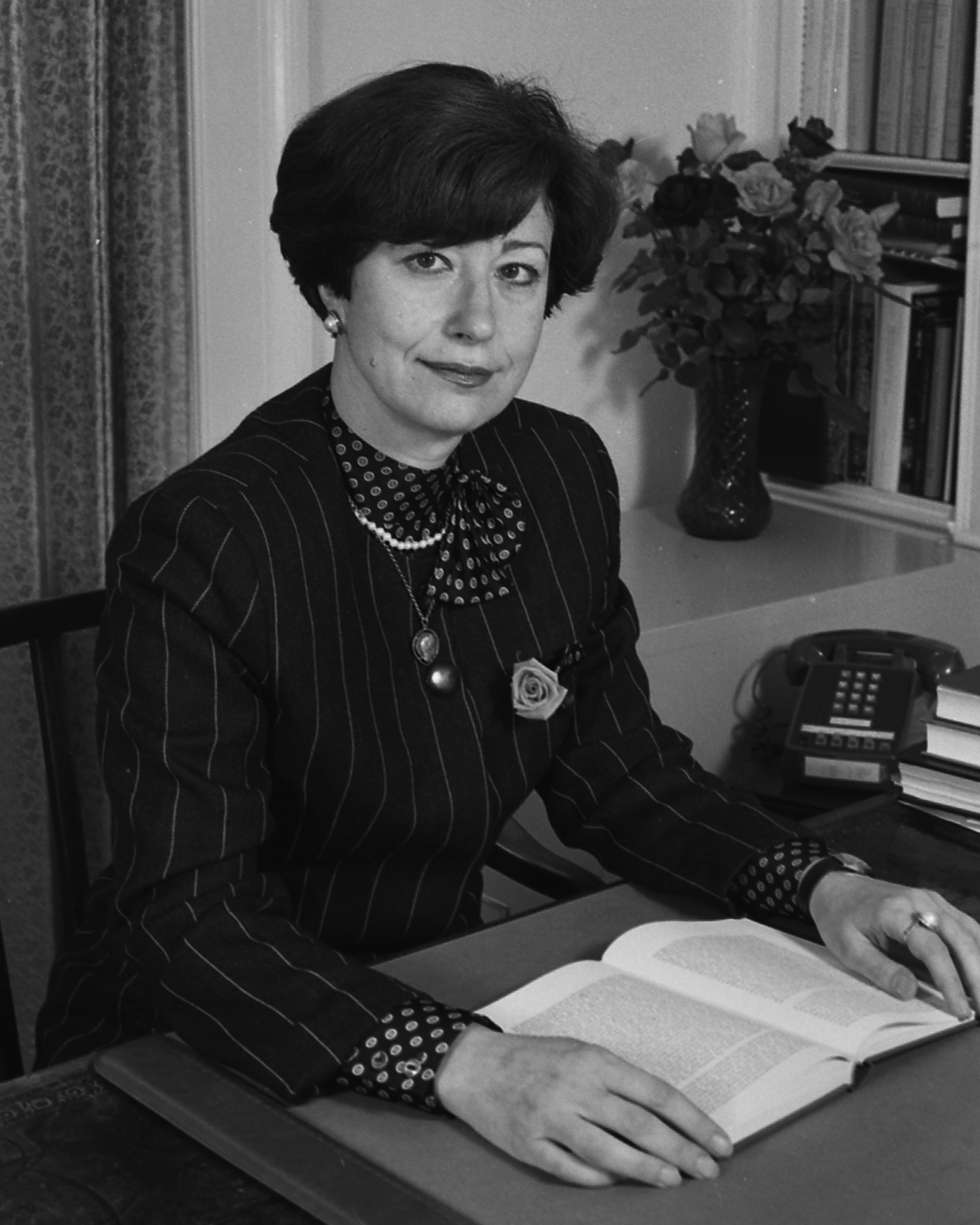 Photograph of Angeliki Laiou during her tenure as Director of Dumbarton Oaks.